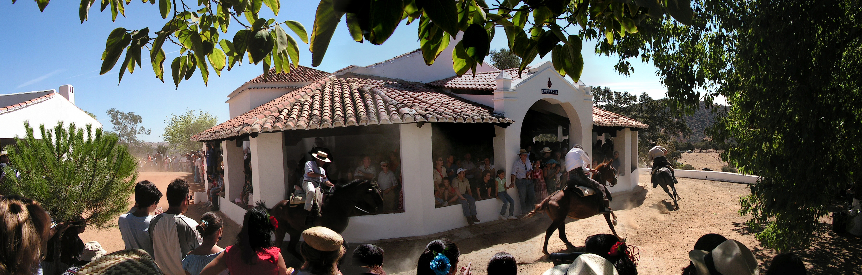 Horse Races in the Church of el Puerto, in Zufre, Huelva, Spain